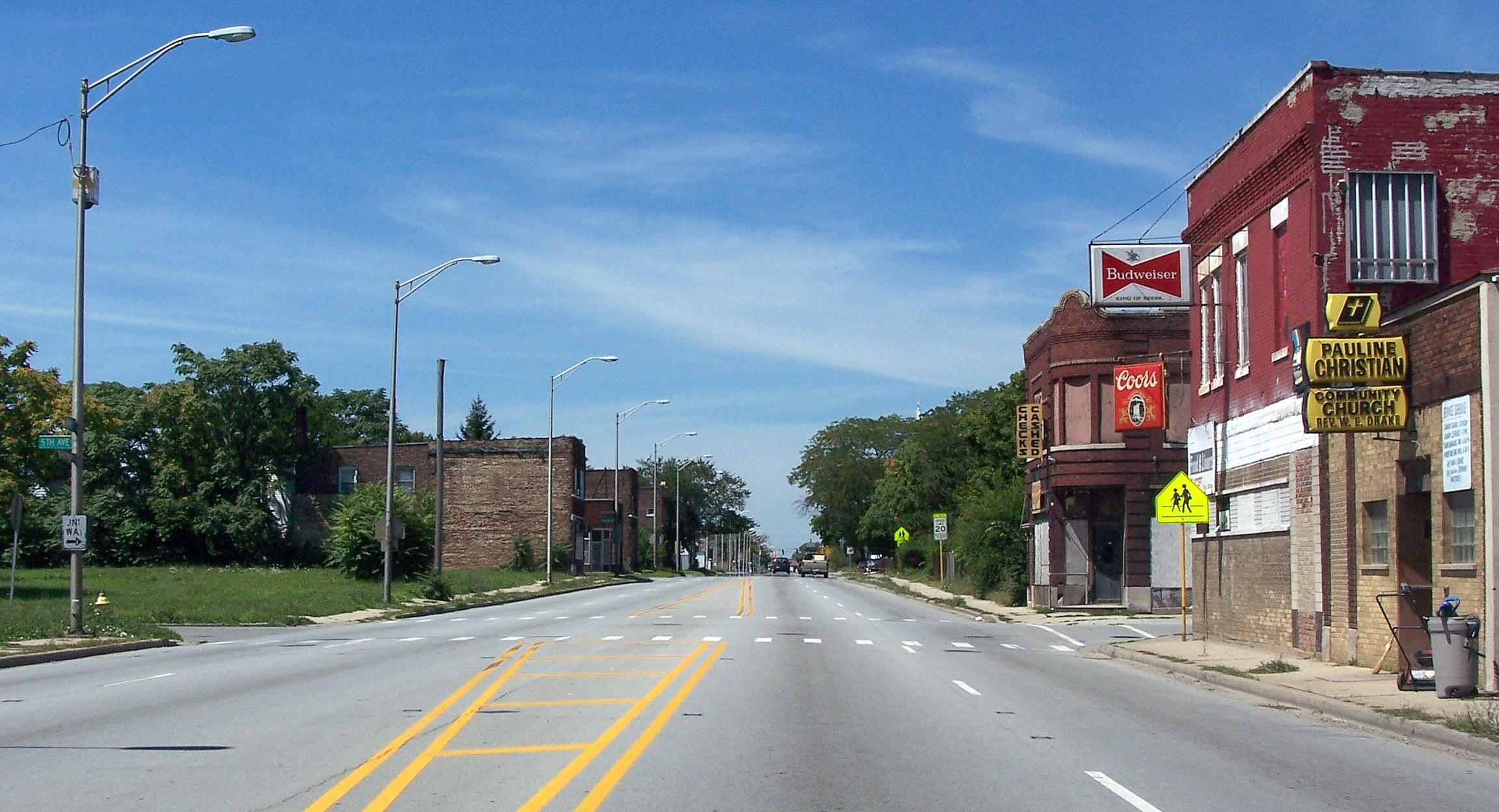 US 30 and 5th Avenue in Chicago Heights, Illinois